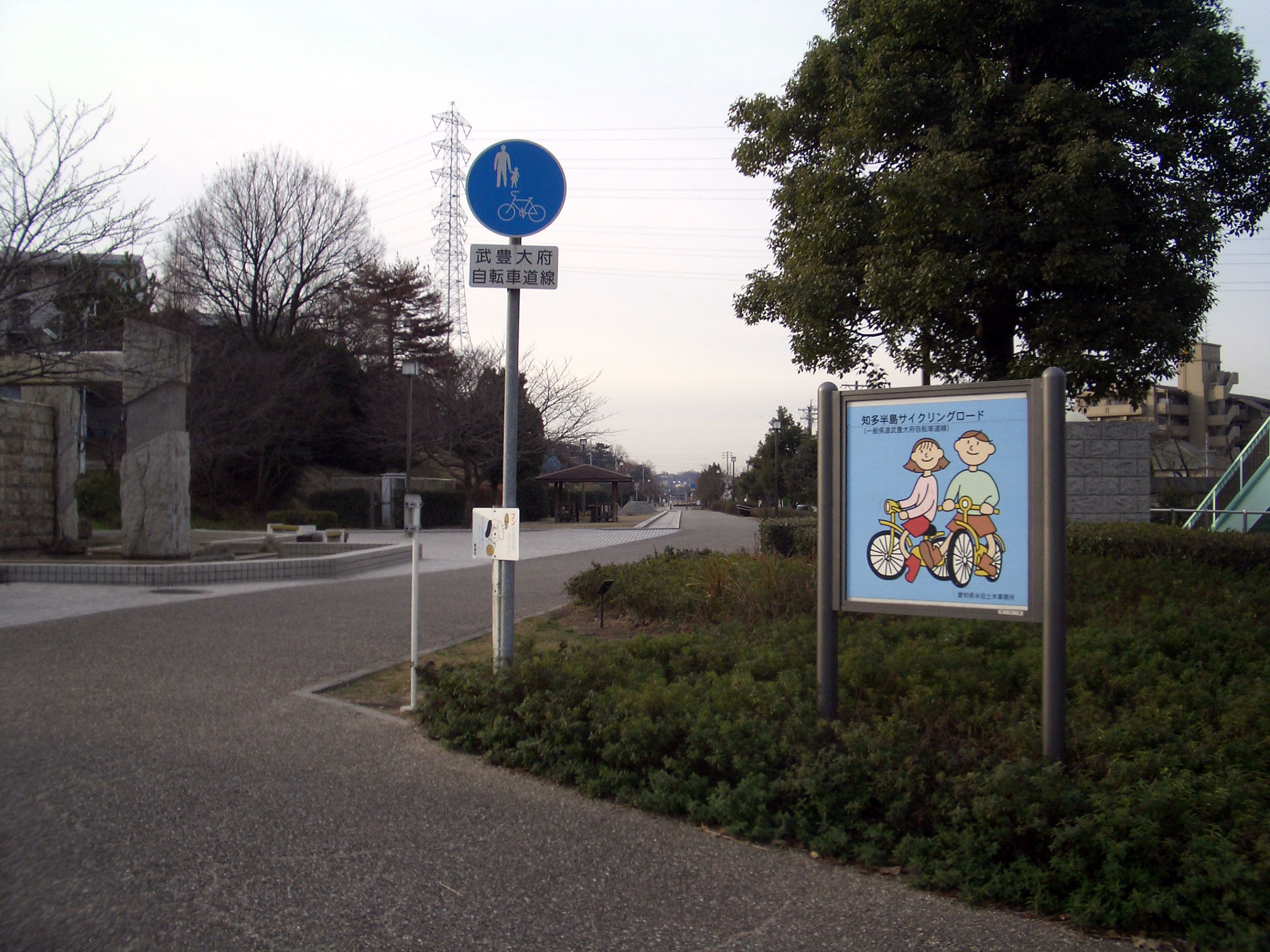 Aichi prefectural road 511, Taketoyo-Obu Cycling Road (Kagiya T, Tōkai, Aichi)